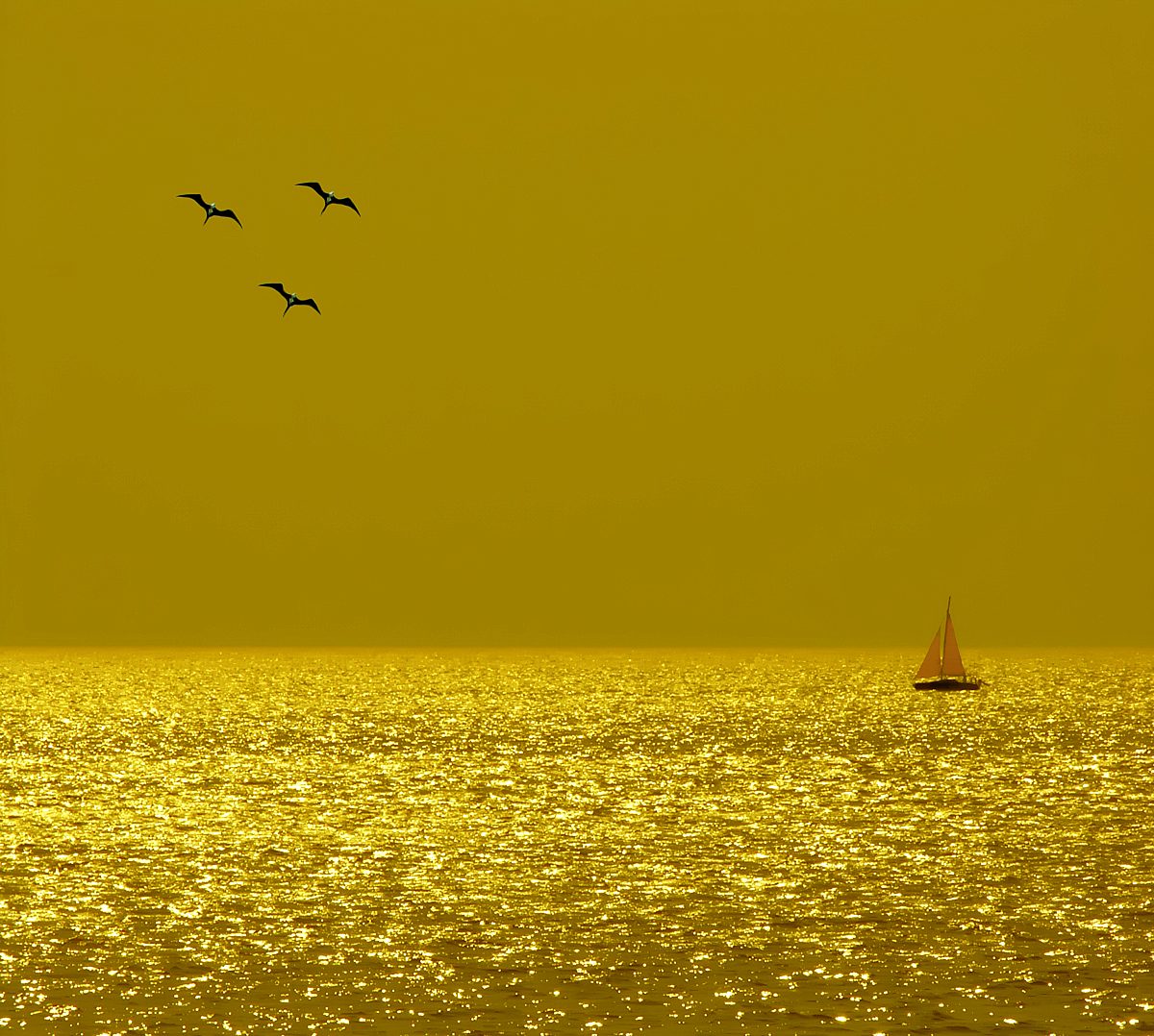 View of the Río de la Plata from the Jorge Newbery Airport, Buenos Aires, Argentina